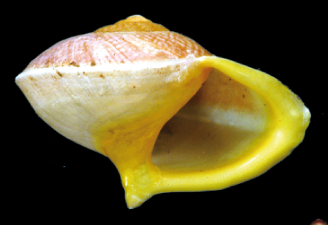 Photo of an apertural view of the shell of Helicina rhodostoma. The height of the shell is 9.24 mm.